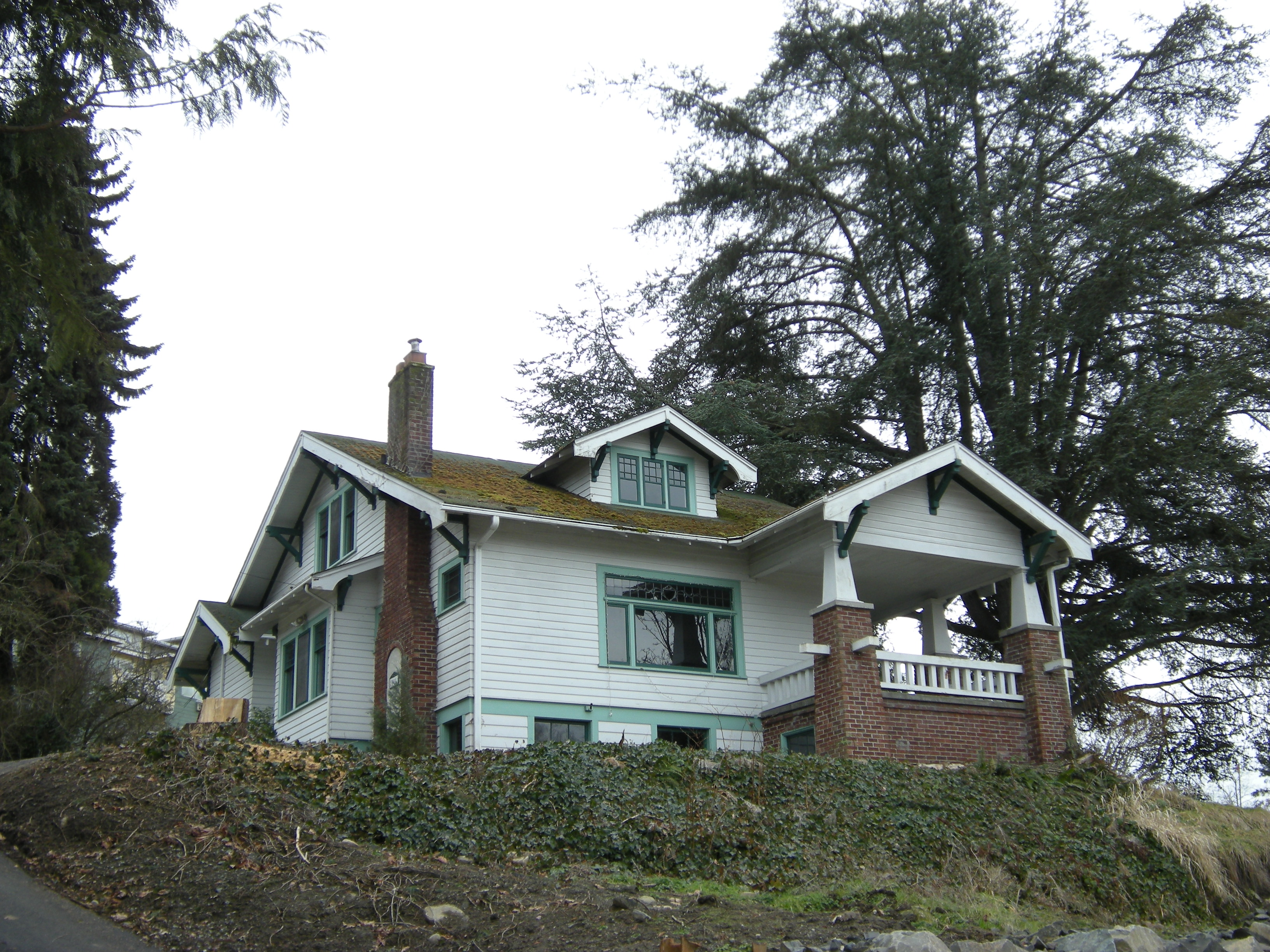 Sorenson House, 10011 W. Riverside Drive, Bothell, Washington, USA. The house is listed on the National Register of Historic Places.